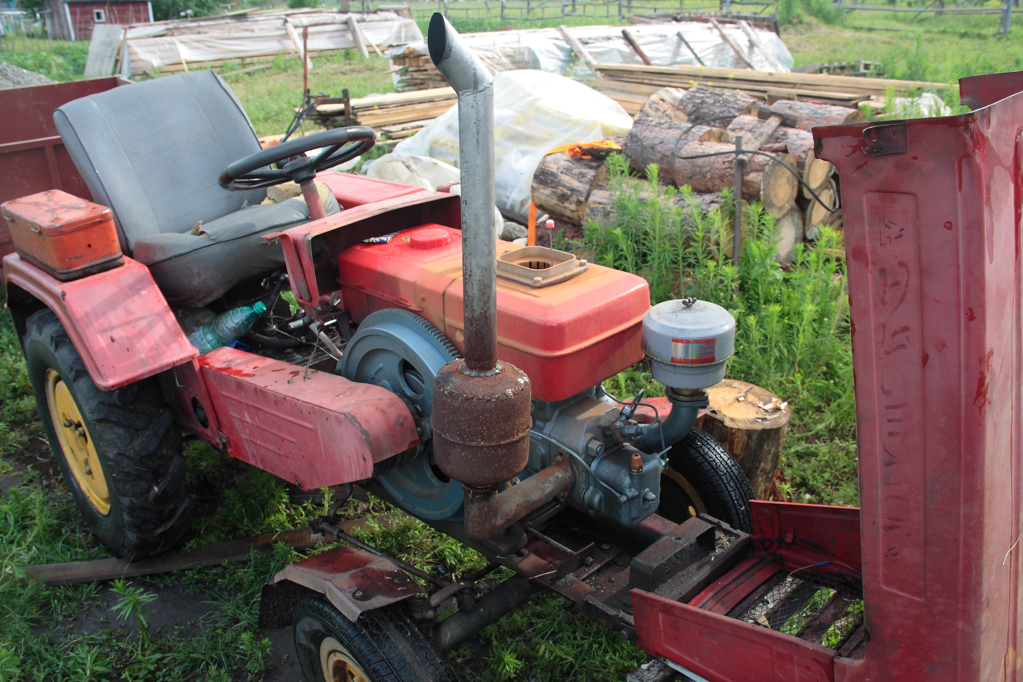 Chines minitractor with single cylinder diesel engine S1100 and belt drive from engine to gearbox